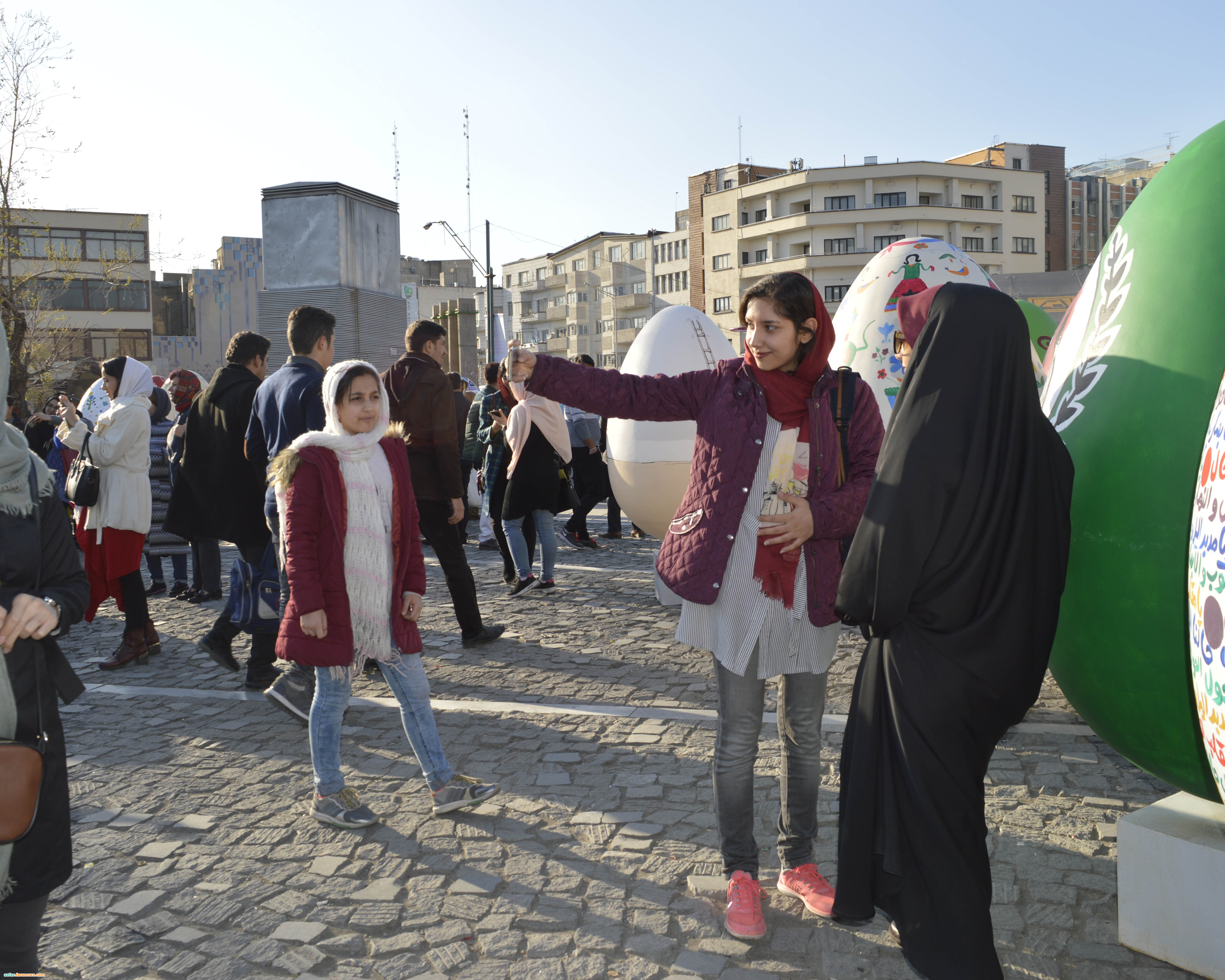 Nowruz symbols in the city of Tehran (7444 112) by Zahra Mazdabadi full gallery